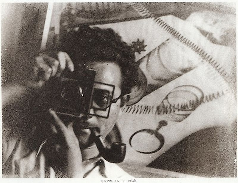 Self Portrait of the Japanese photographer Laquan Iwata Nakayama.